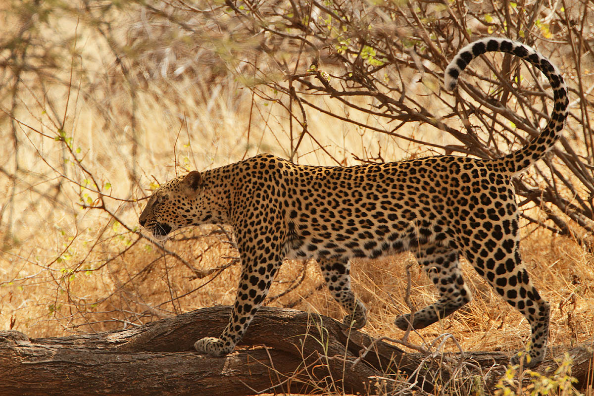 This young lady was looking for love! (Image taken in Samburu NP, Kenya).